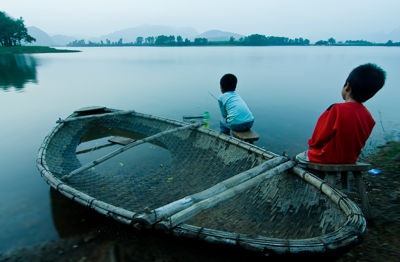 Hồ Mực, a lake of 4000 hectares inside Ben En National Park, Thanh Hóa.